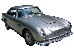 A 1965 Aston Martin DB5, adapted from: File:Aston.db5.coupe.300pix.jpg